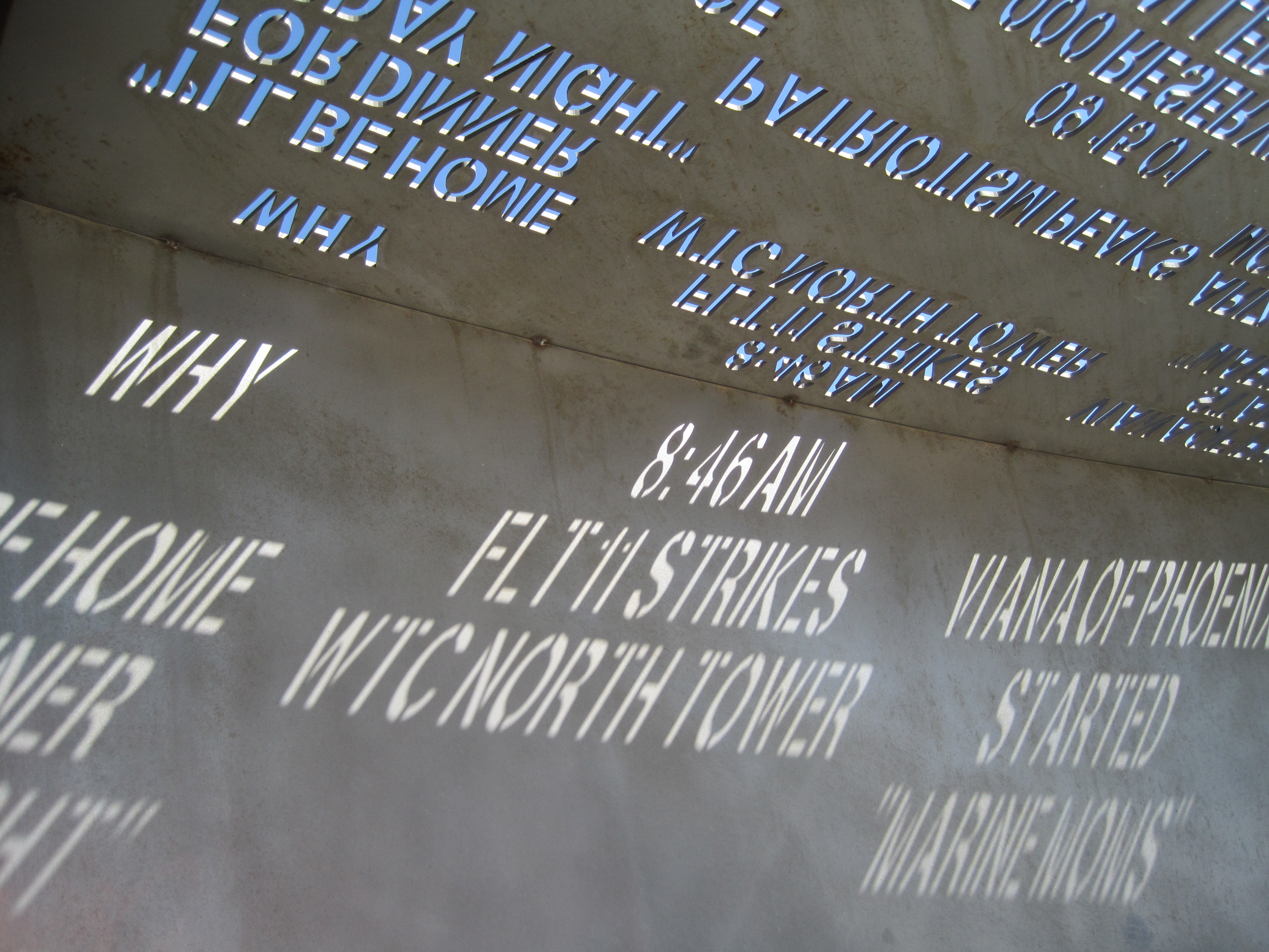 Sunlight projects text cut into the metal ring of the 9-11 Memorial at Wesley Bolin Plaza onto the concrete base below.